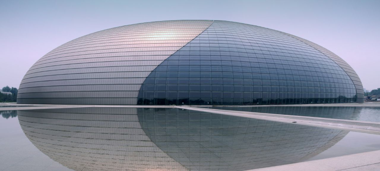 National Grand Theatre in Beijing, China. Viewed from Northeast.